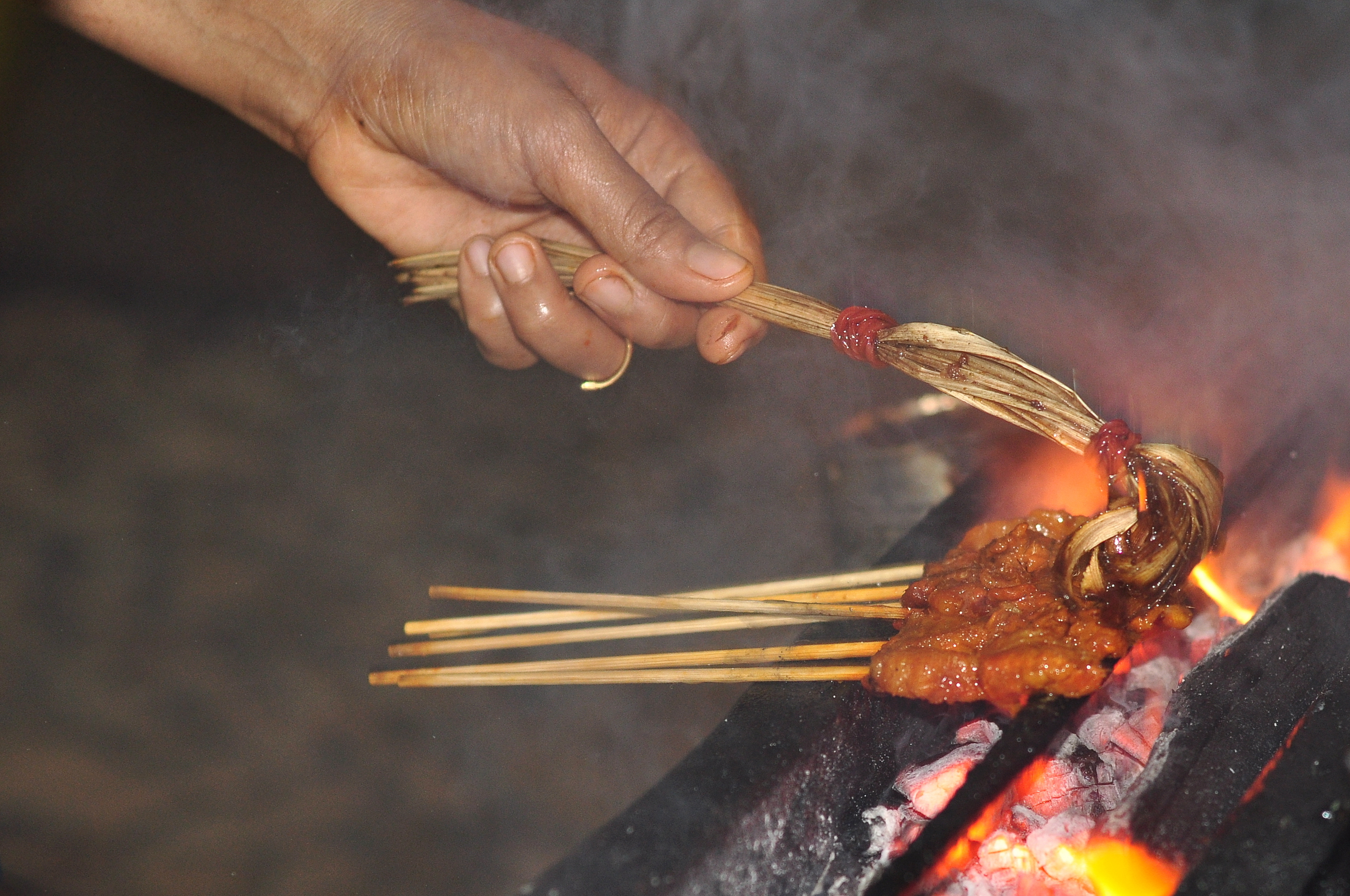 Cook using brush made out of plant stems (or similar... reeds?) tied together is brushing sauce on some satay. Photo taken in Tanjung Aru beach, in the hawker food court. Sabah (Borneo), Malaysia.